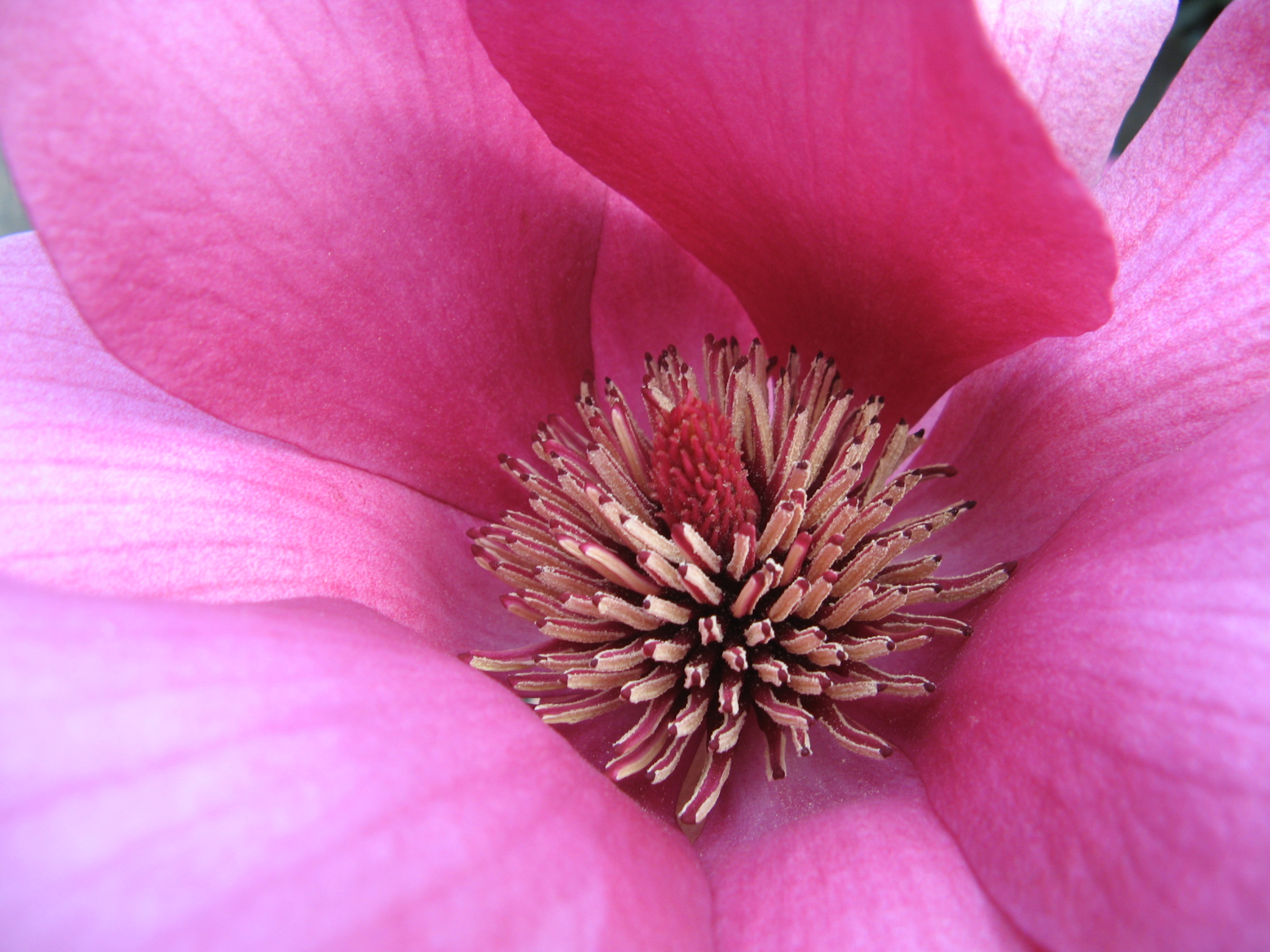 Hot pink tulip magnolia in full bloom